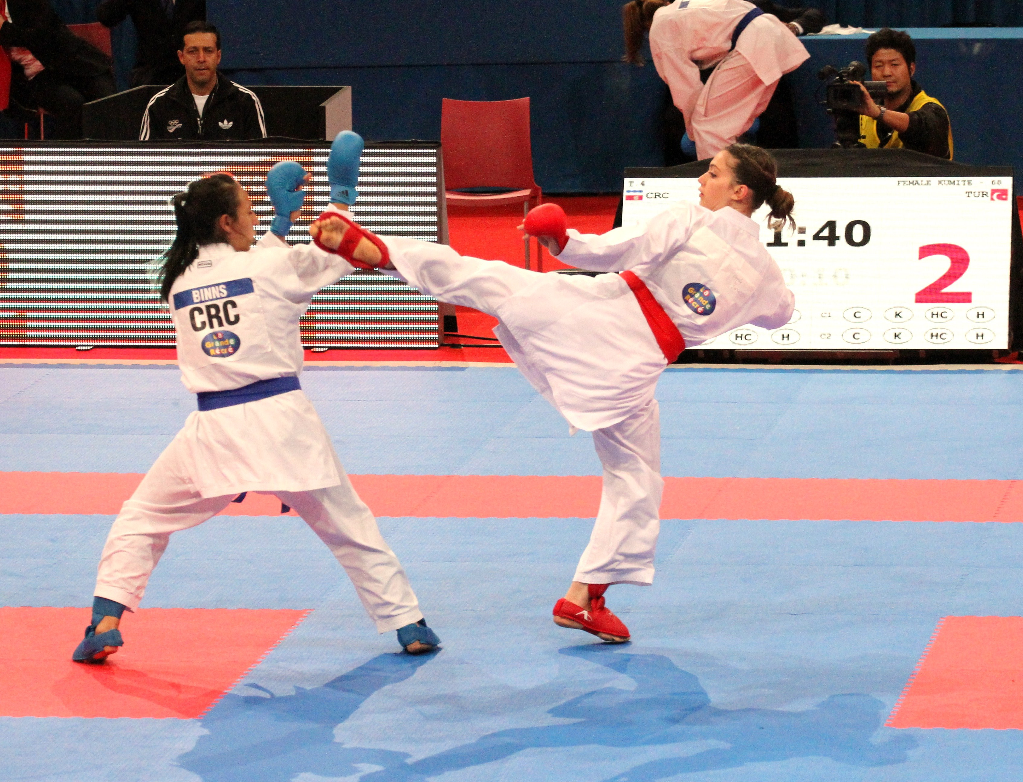 WKF Karate world championships 2012 in Paris-France